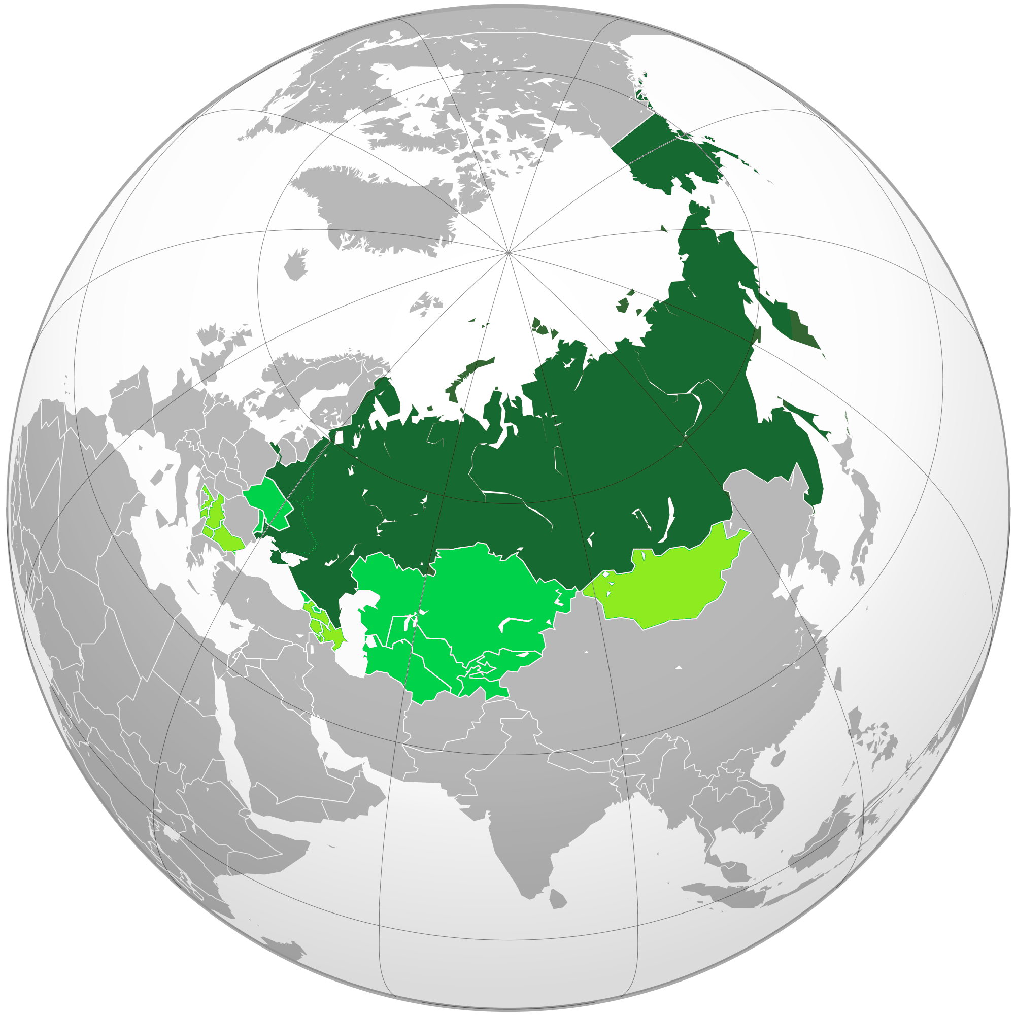 Plan of the Great Russia (green: Russia, lightgreen: Provinces)